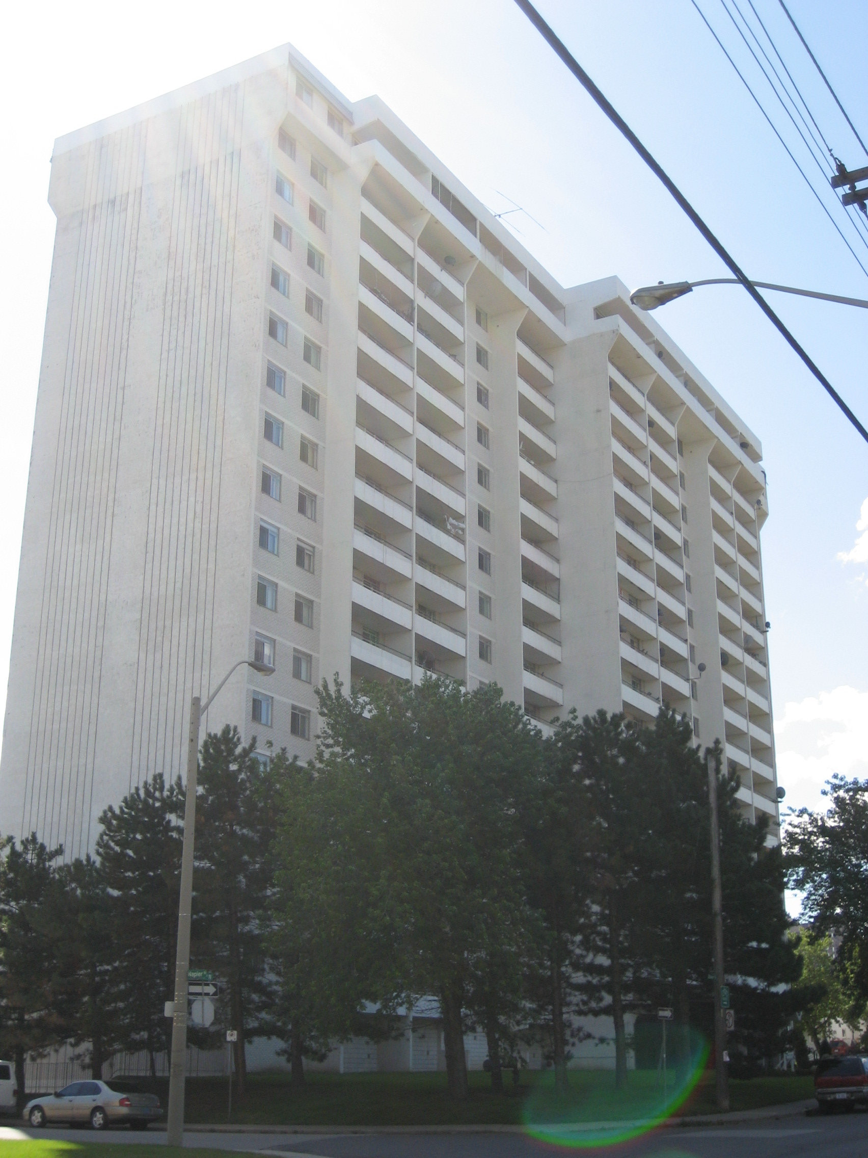 Queen Elizabeth Tower, (apartments), Hamilton, Canada.